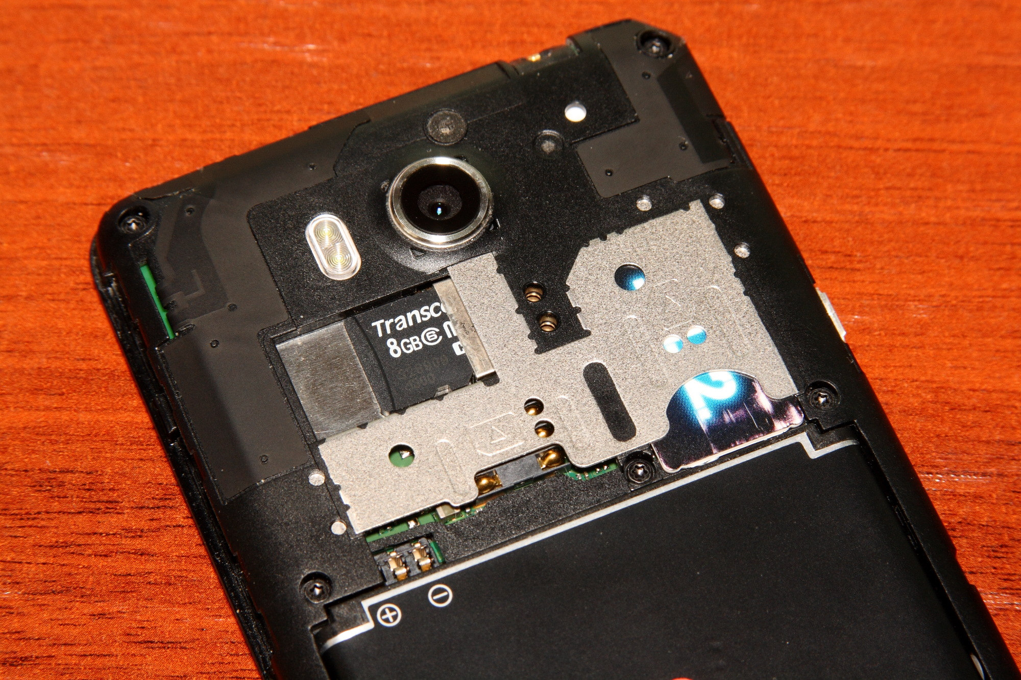 Slots for SIM cards and MicroSD card of Huawei U8950D smartphone